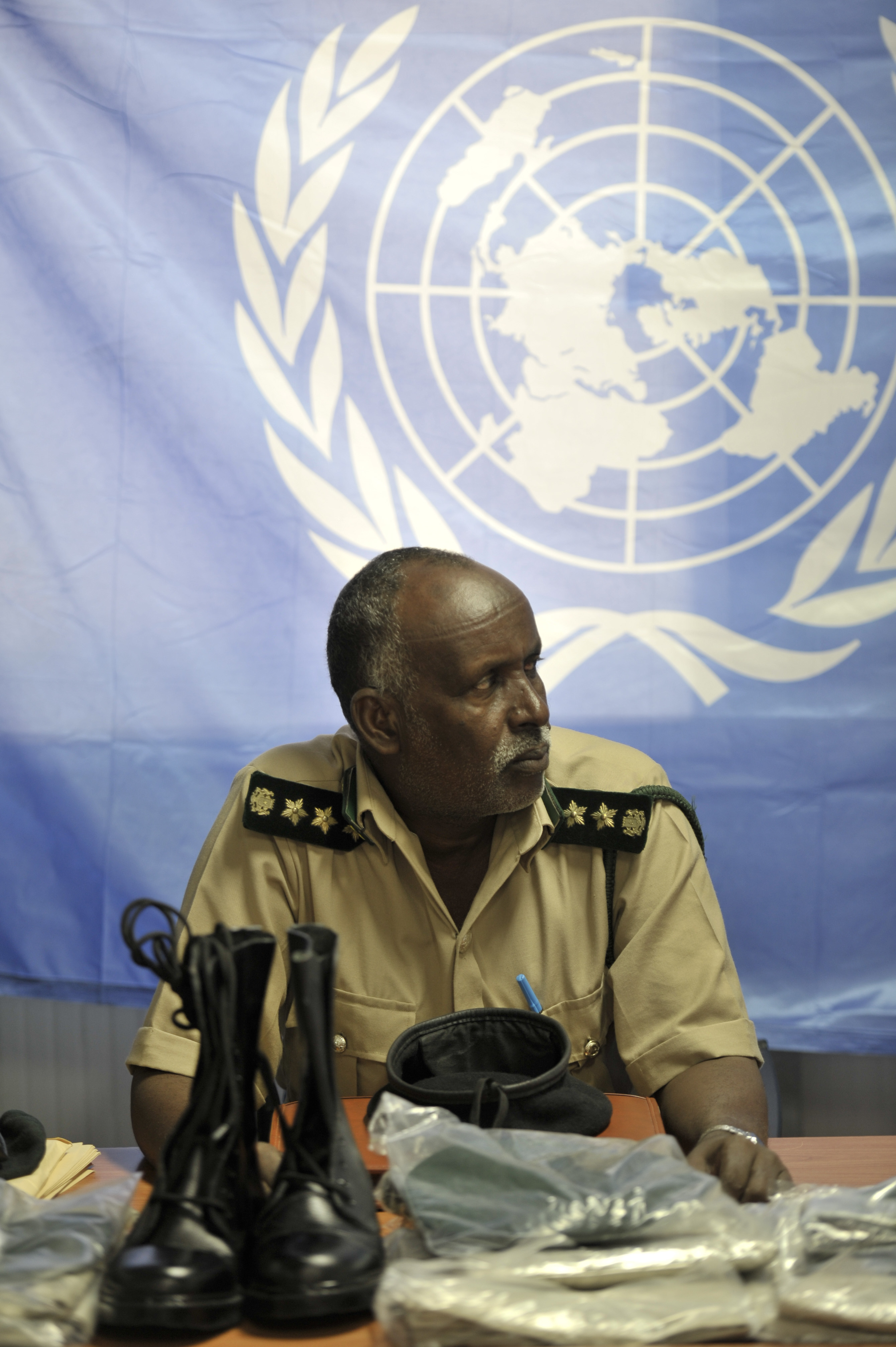 Prison Commissioner Gen. Hussein Hassan Osman listens to regional coordinator of UNODC Alan Cole during a handover of Uniforms to Somali Custodial Corps on 19th February 2014. AU UN IST PHOTO / David Mutua